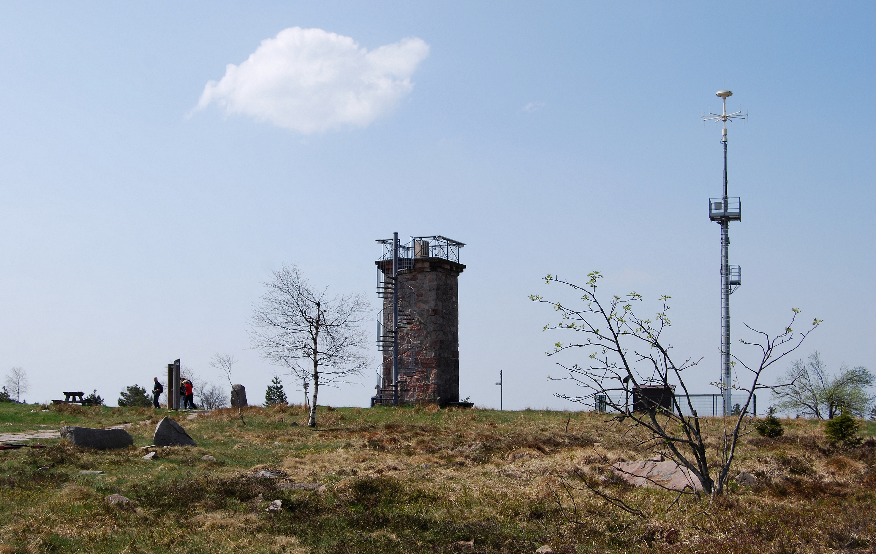 Bismarck tower (look-out) on the Hornisgrinde, Northern Black Forest.